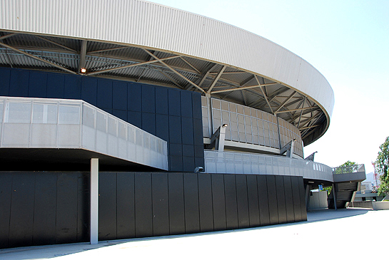 Olympic Tennis Centre at the Athens Olympic Sports Complex